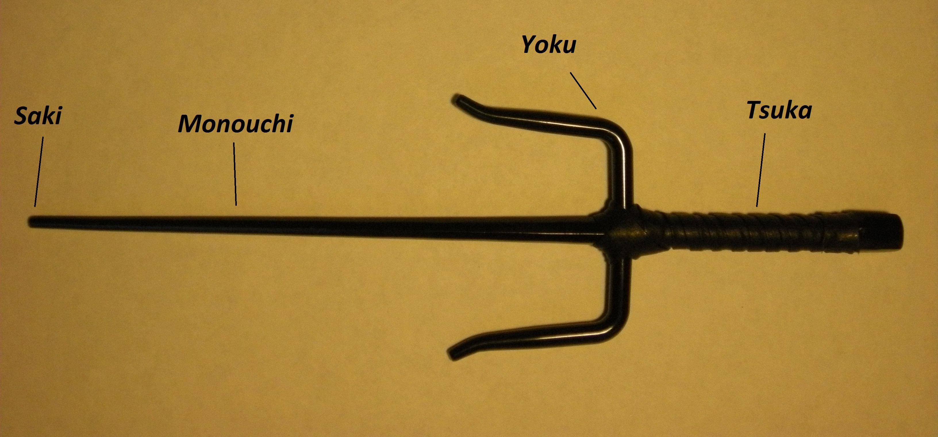 Description of a sai